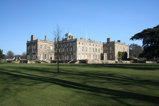 Culford School Formerly the home of the Cadogan family, Culford Park became a school in 1935, when the East Anglian School for Boys moved here from Bury St Edmunds. It is now a fee-paying school with a Methodist ethos.